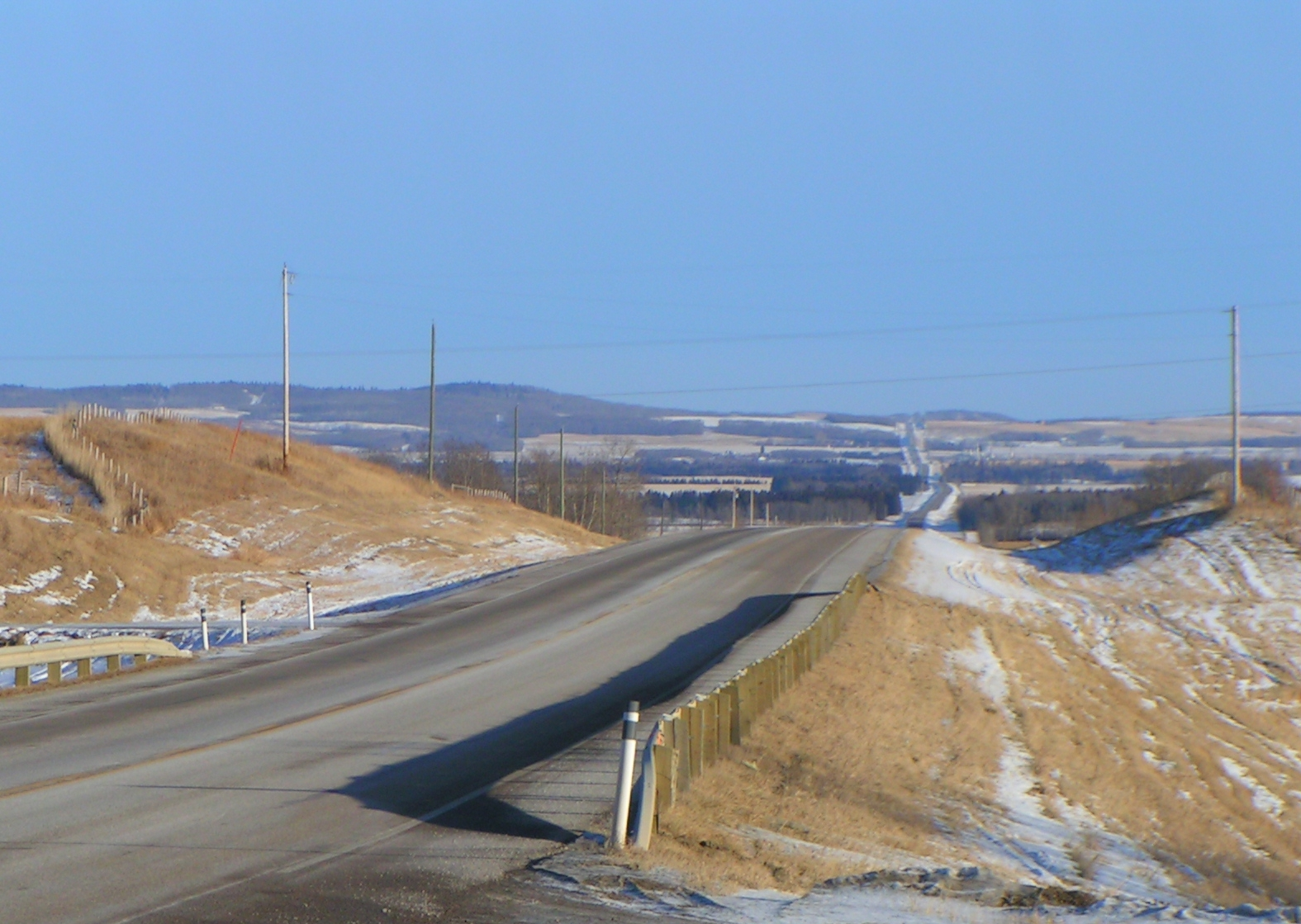 Highway 11 (David Thompson Highway) passing through Red Deer County, Alberta, Canada